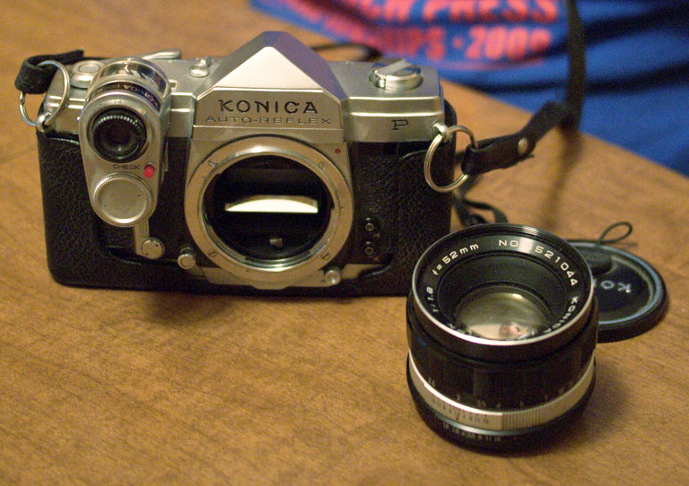 Konica Auto Reflex P with original lens and optional light meter.